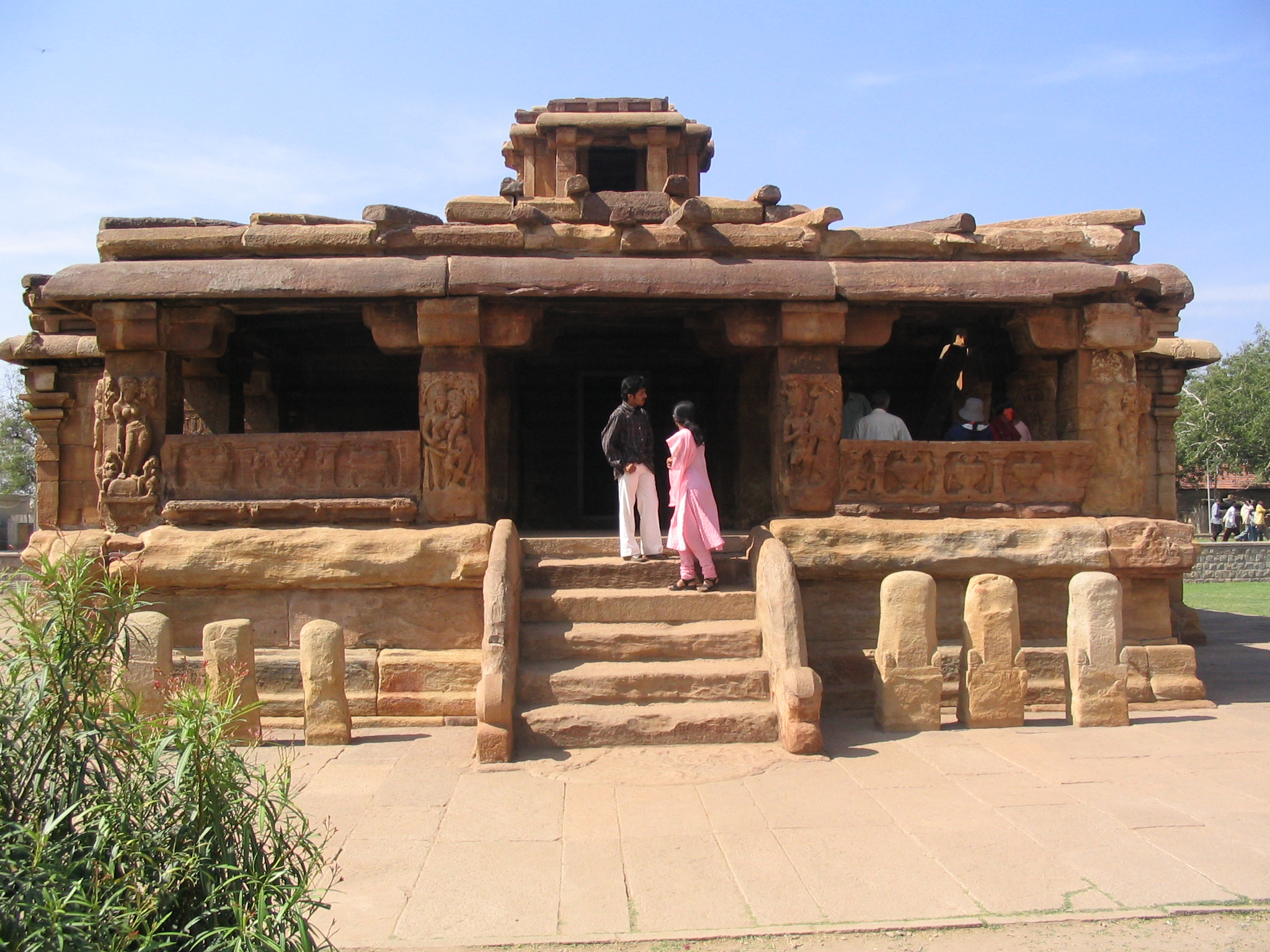 Lad Khan Temple (begun in 5th century, finished around 600) at Aihole, Karnataka, India